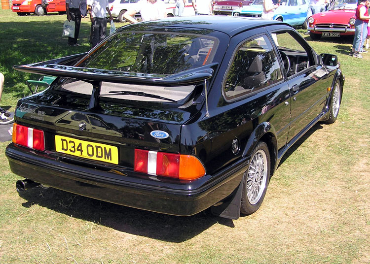 1986 Ford Sierra RS Cosworth at Bristol Car Show, The Downs, Bristol, England.